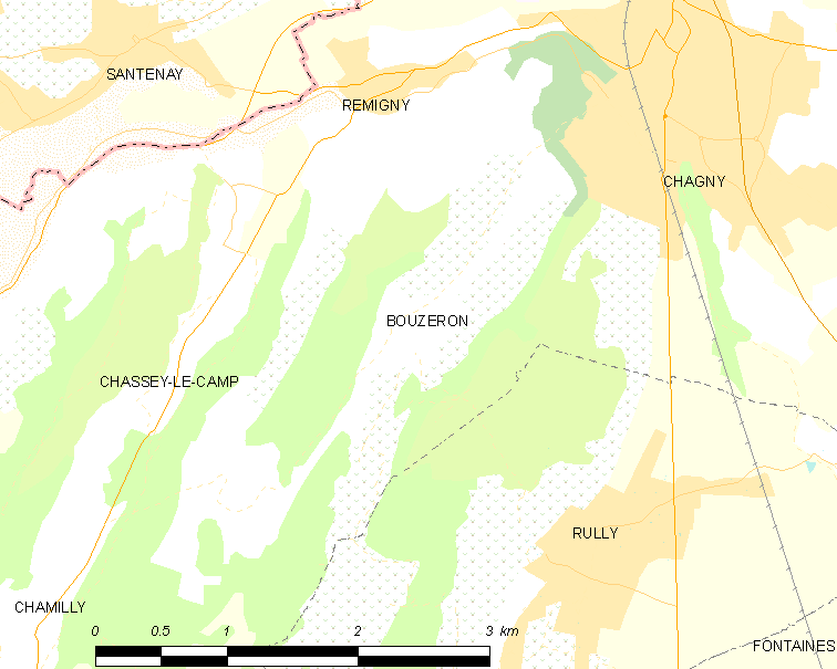 Map of French municipality